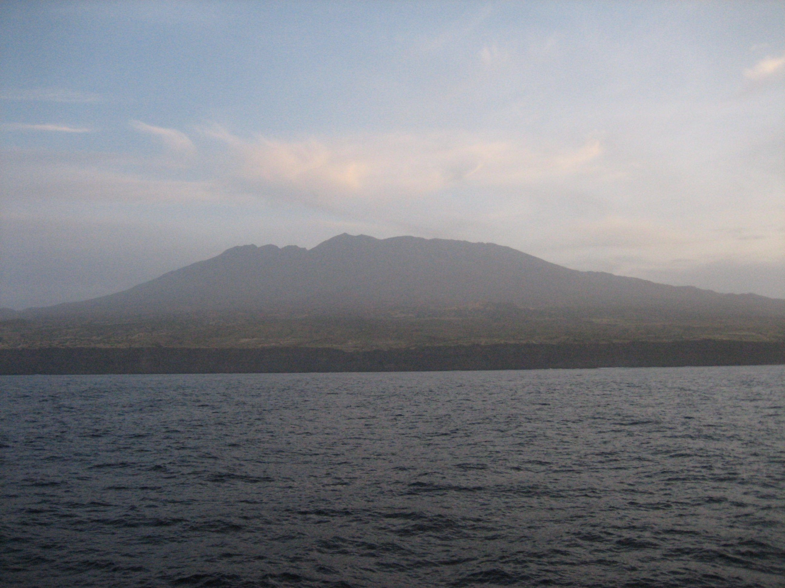 Th eisland of Fogo with its dominating volcano 'Pico de Fogo, Cape Verde